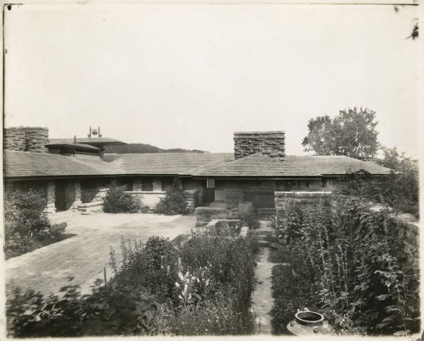 The courtyard of Taliesin II, c. 1914-15